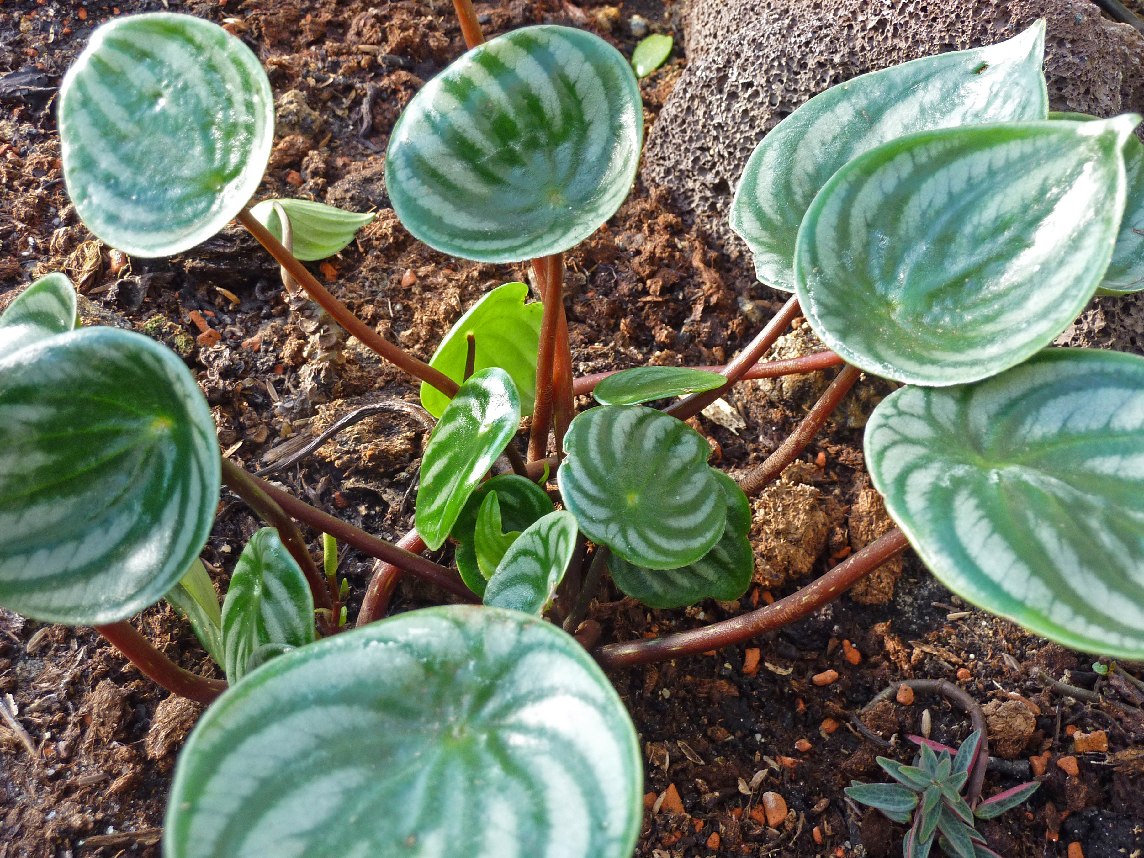 Peperomia argyreia in the Botanical Garden, Berlin.